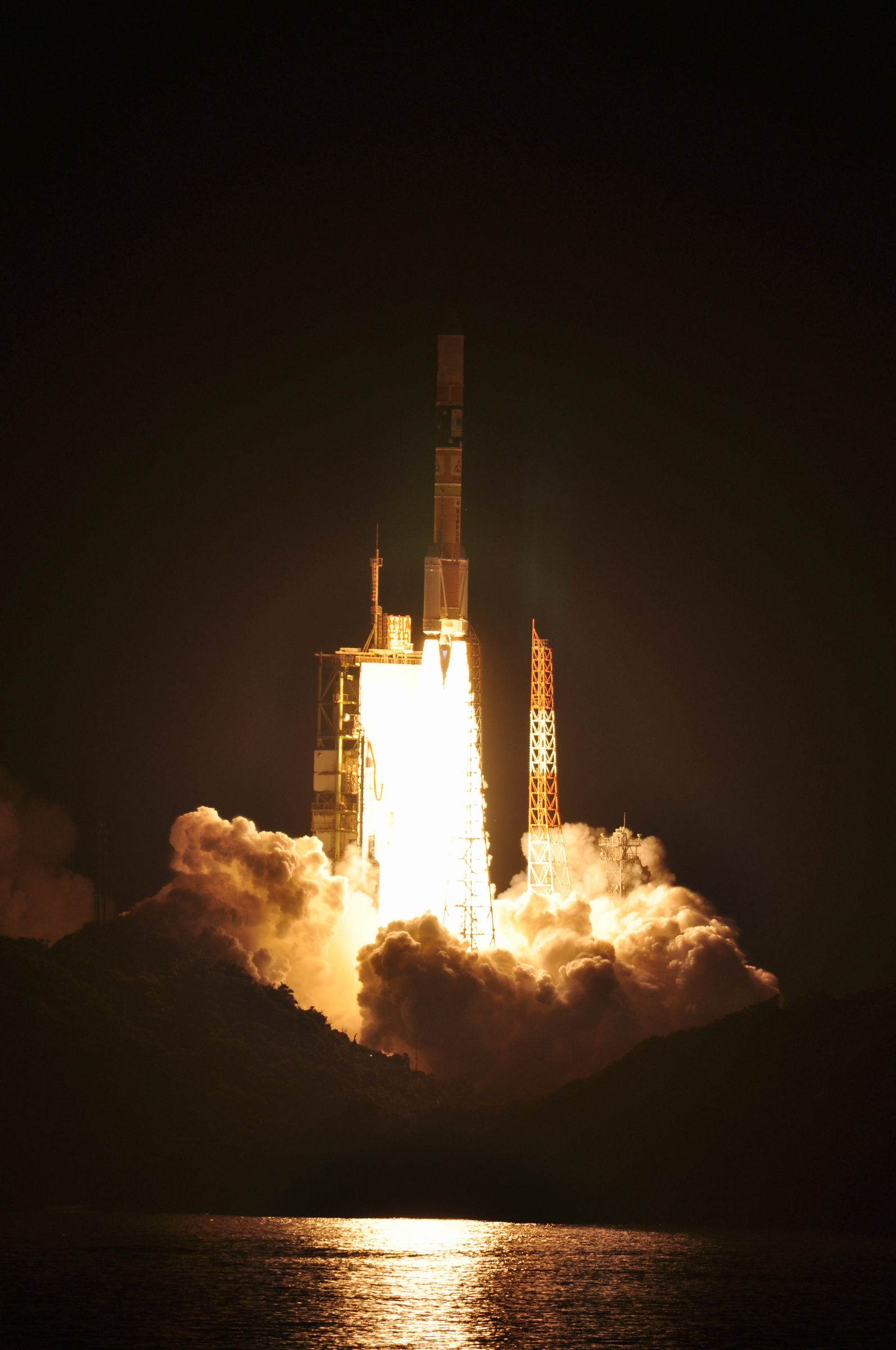 H-IIA Launch Vehicle Flight 18, launching Quasi-Zenith Satellite-1 "MICHIBIKI".